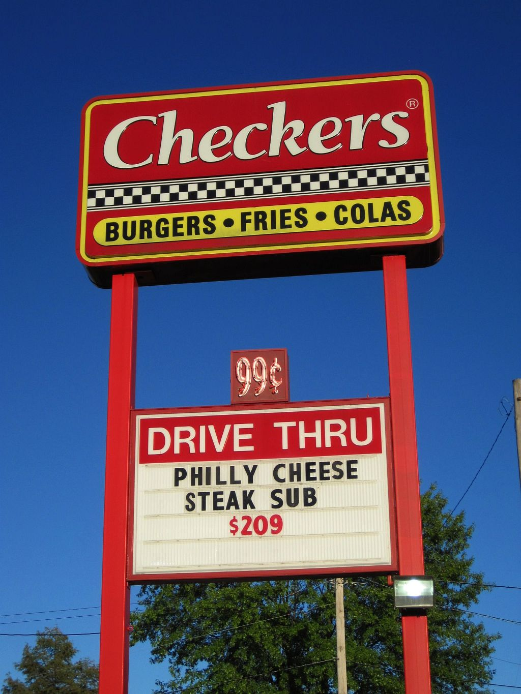 Memphis Tennessee. Checkers Philly Sub $209 sign.